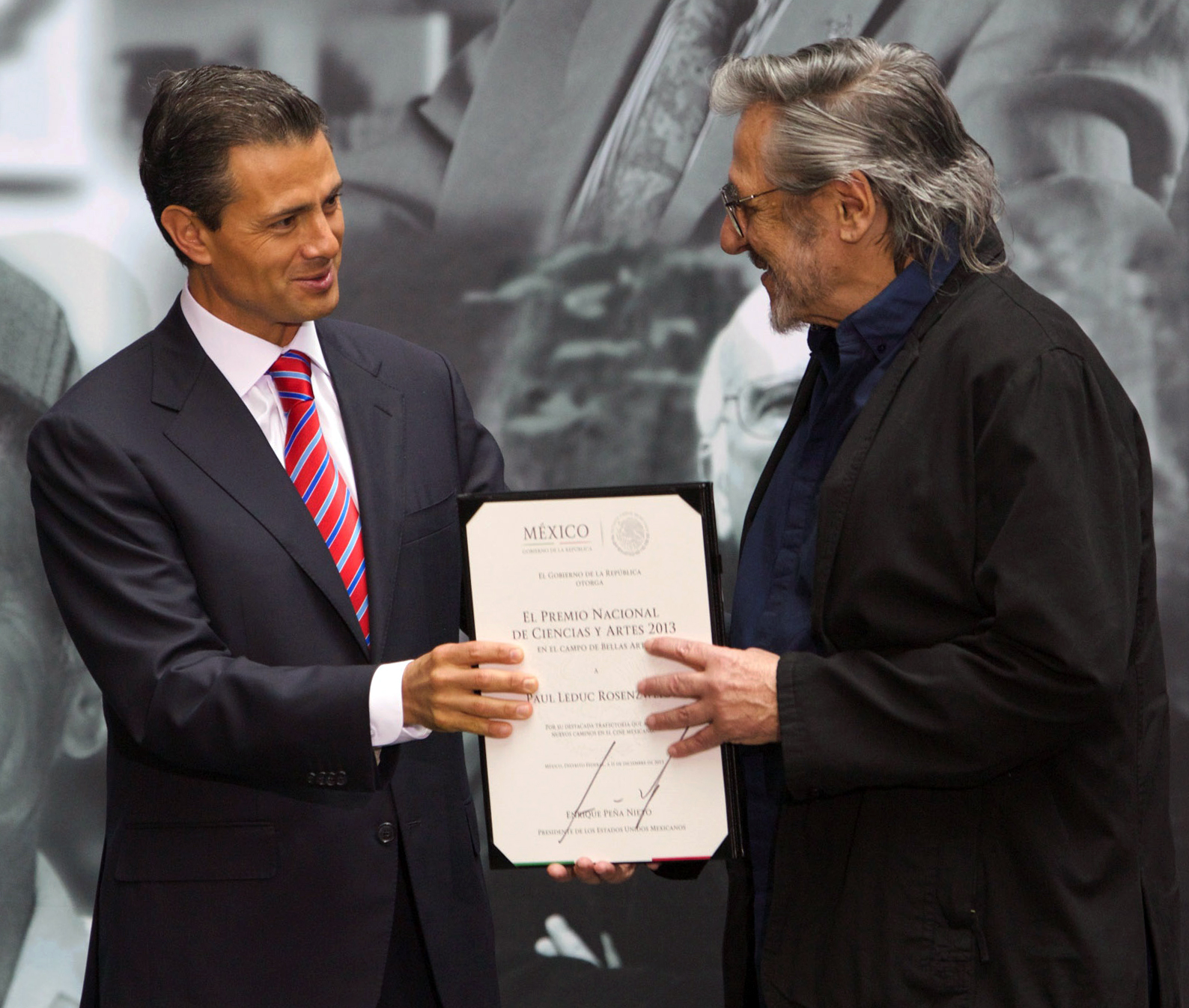 Science and Art National Prize 2013. National Palace. Mexico City. 10 December, 2013.